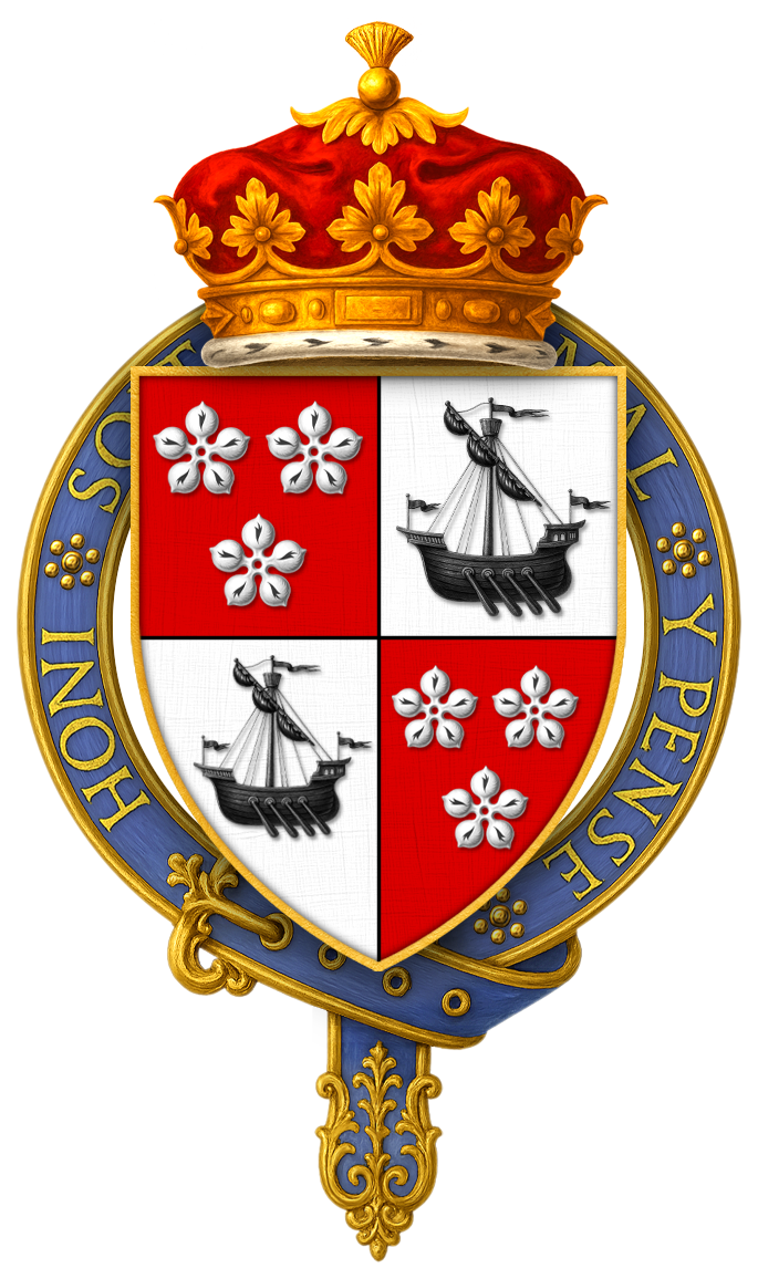 Coat of arms of Sir James Hamilton, 1st Duke of Hamilton, KG